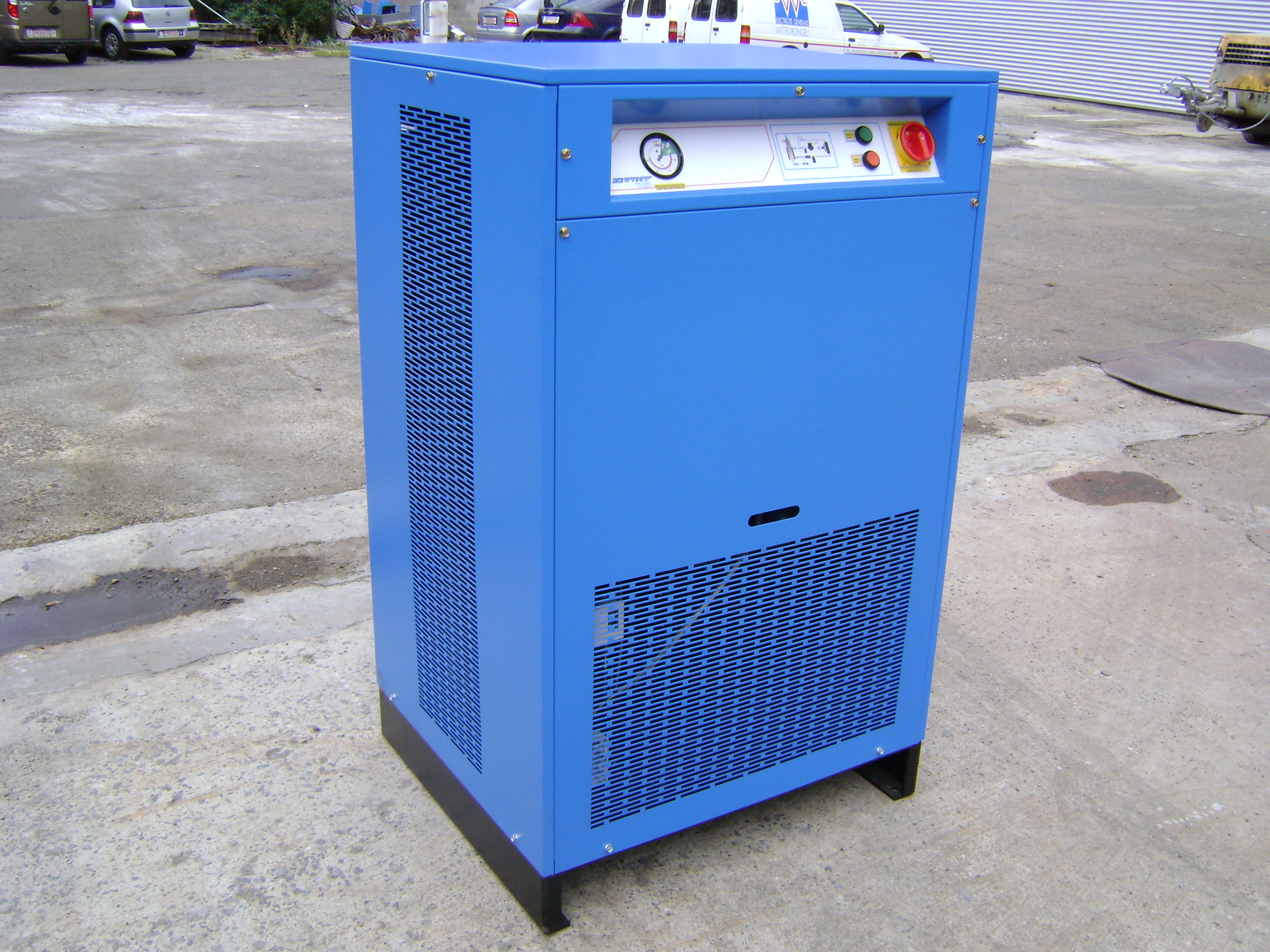 picture of a refrigerating compressed air dryer